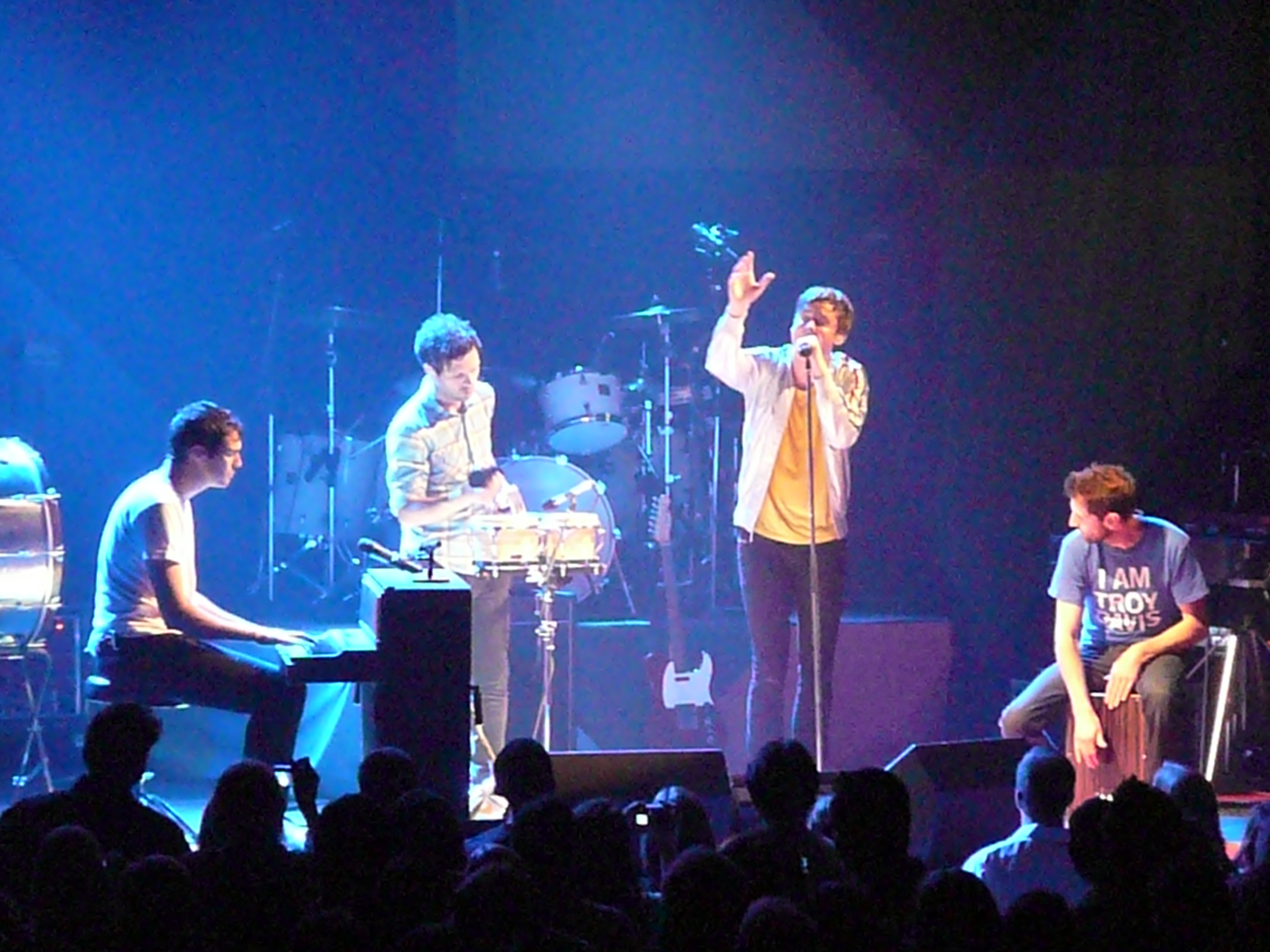 DAR Constitution Hall, Washington, DC